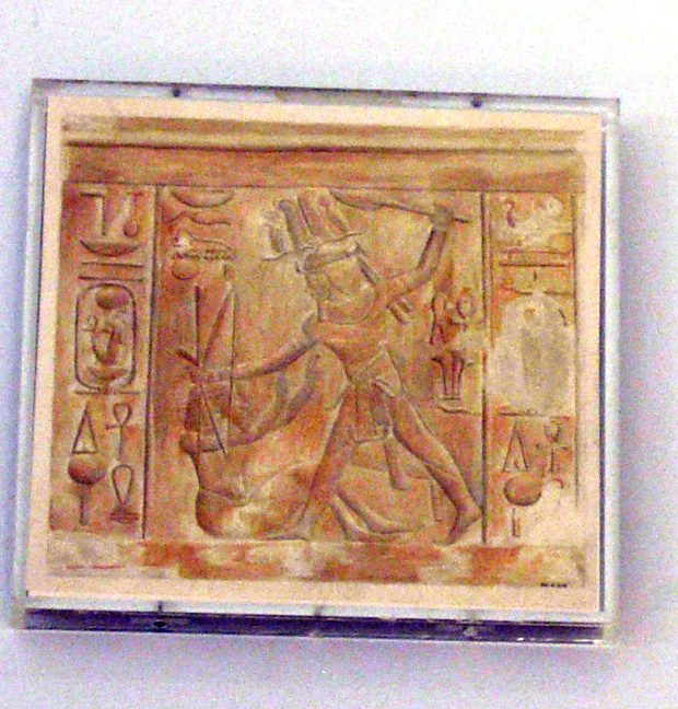 Facsimile, Amenemhat Surer (TT 48), Amenhotep III